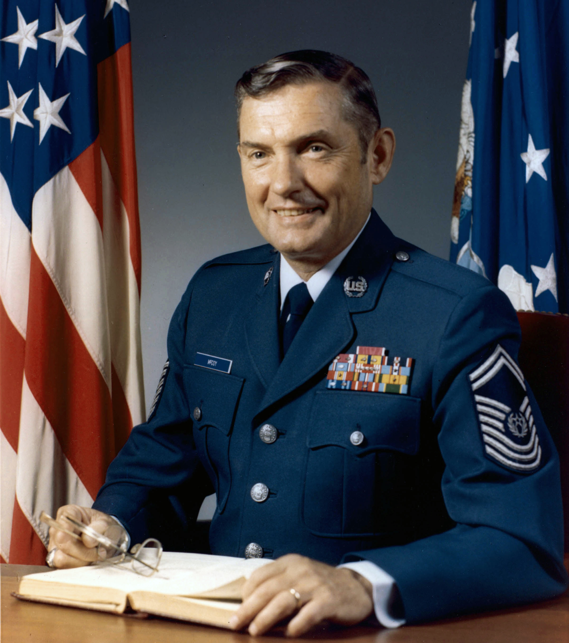 James M. McCoy, 6th CMSAF.